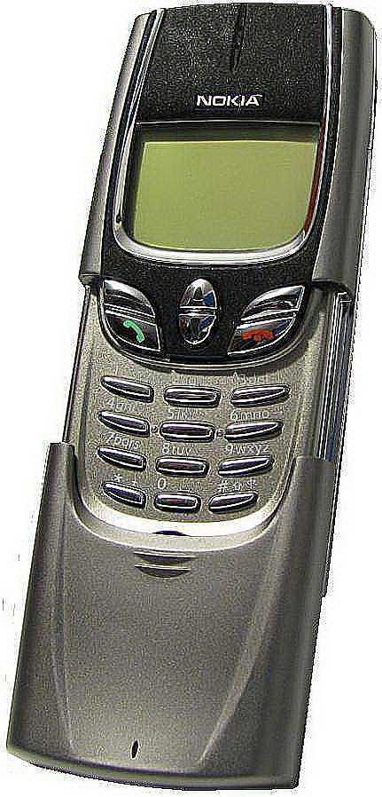 nokia8850